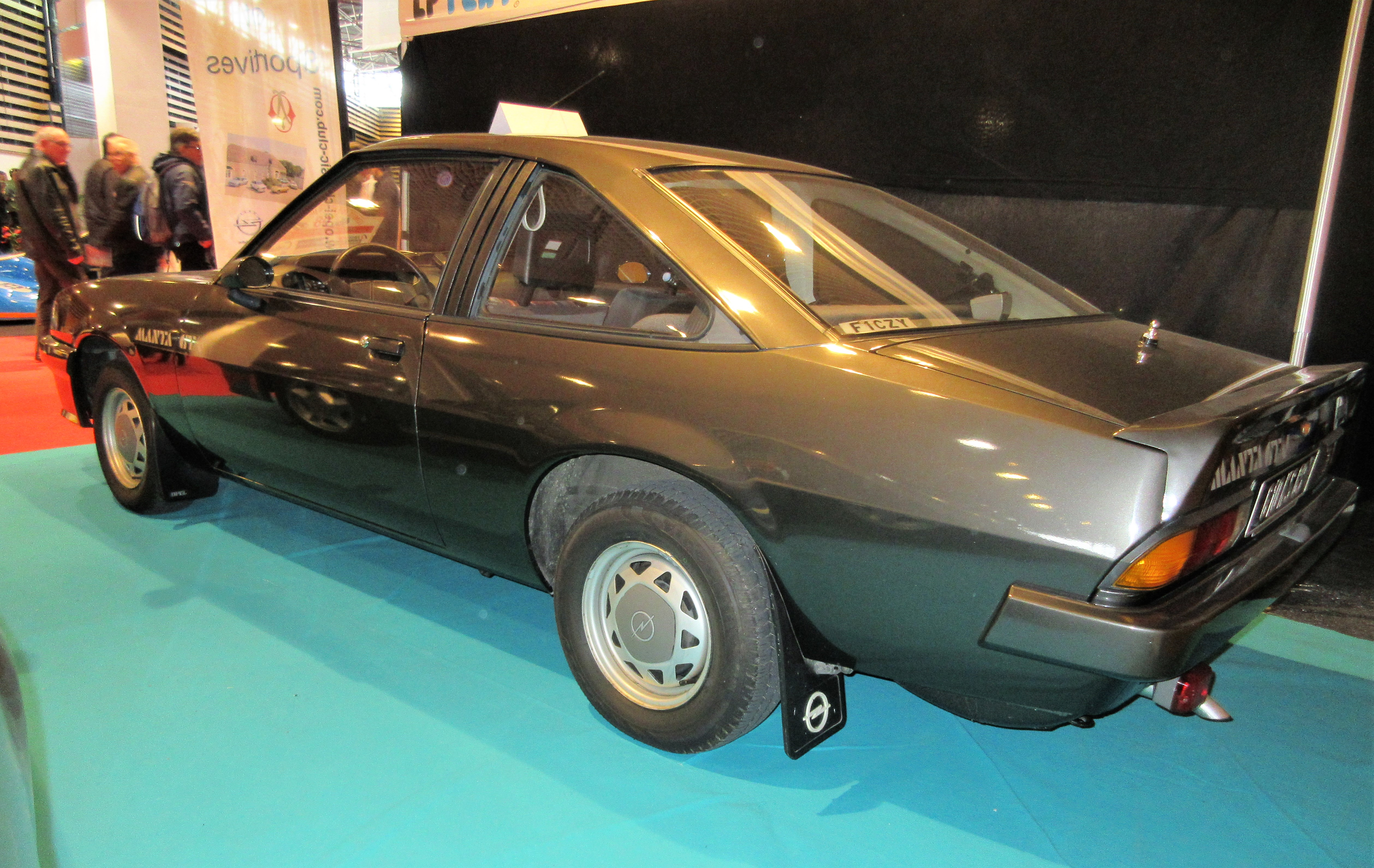 Subject: Opel Manta GT/J Author: Luc106 Date:Novembre 4th, 2016 Event: Epoqu'Auto, Lyon Place/Country: Eurexpo, Chassieu (France) I release all rights in the public domain.